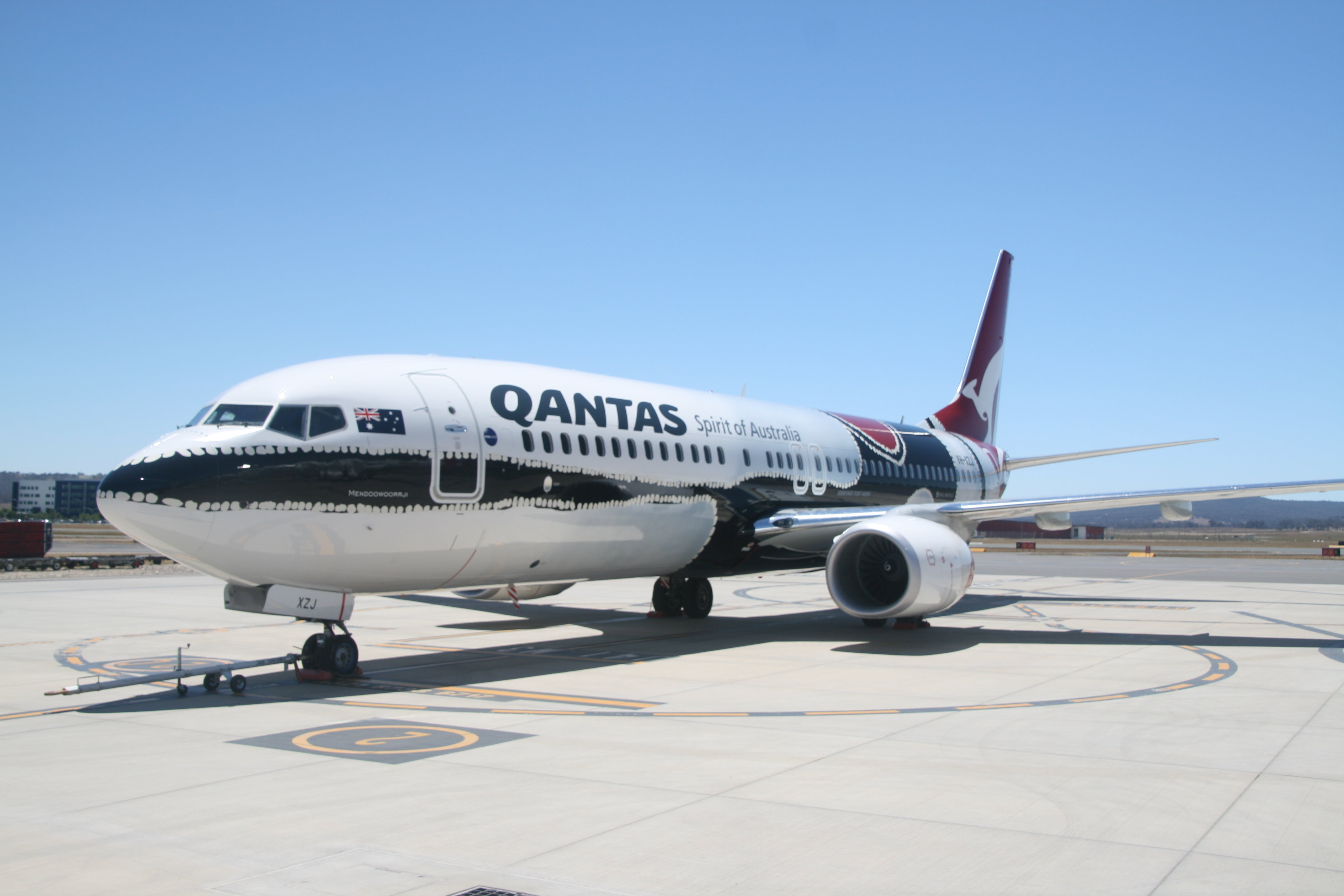 Qantas Boeing 737-800 Mendoowoorrji, inspired by the 2005 painting "Medicine Pocket" by the late Aboriginal artist Paddy Bedford, depicting the Mendoowoorrji region of northern Western Australia where Bedford's mother grew up. "Medicine Pocket" is now in the collection of the National Gallery of Australia in Canberra. Mendoowoorrji is the fifth Qantas aircraft to wear a special Aboriginal artwork as its paint scheme. Two Boeing 747s have worn the Wunala Dreaming scheme; another 747 the Nalanji Dreaming scheme; and another 737-800 wears the Yananyi Dreaming scheme. Digital photo of VH-XZJ taken by YSSYguy at Canberra Airport on 13 January 2014 and uploaded for use in the Qantas article. YSSYguy (talk) 21:12, 14 January 2014 (UTC)